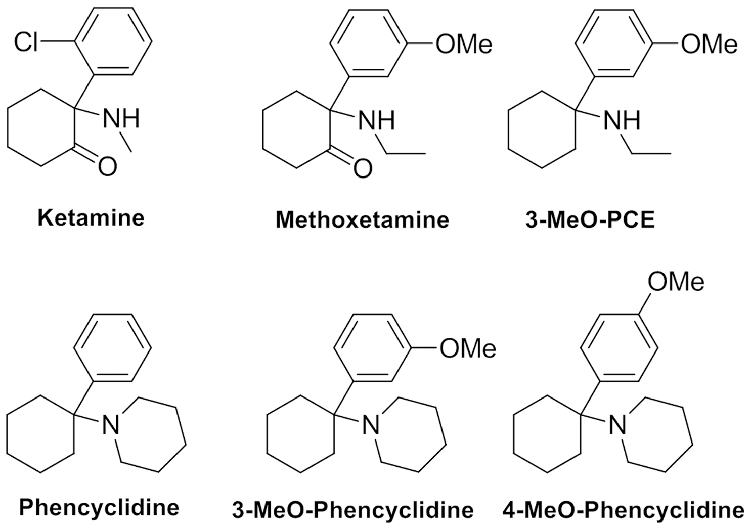 Chemical structures of arylcyclohexylamines.